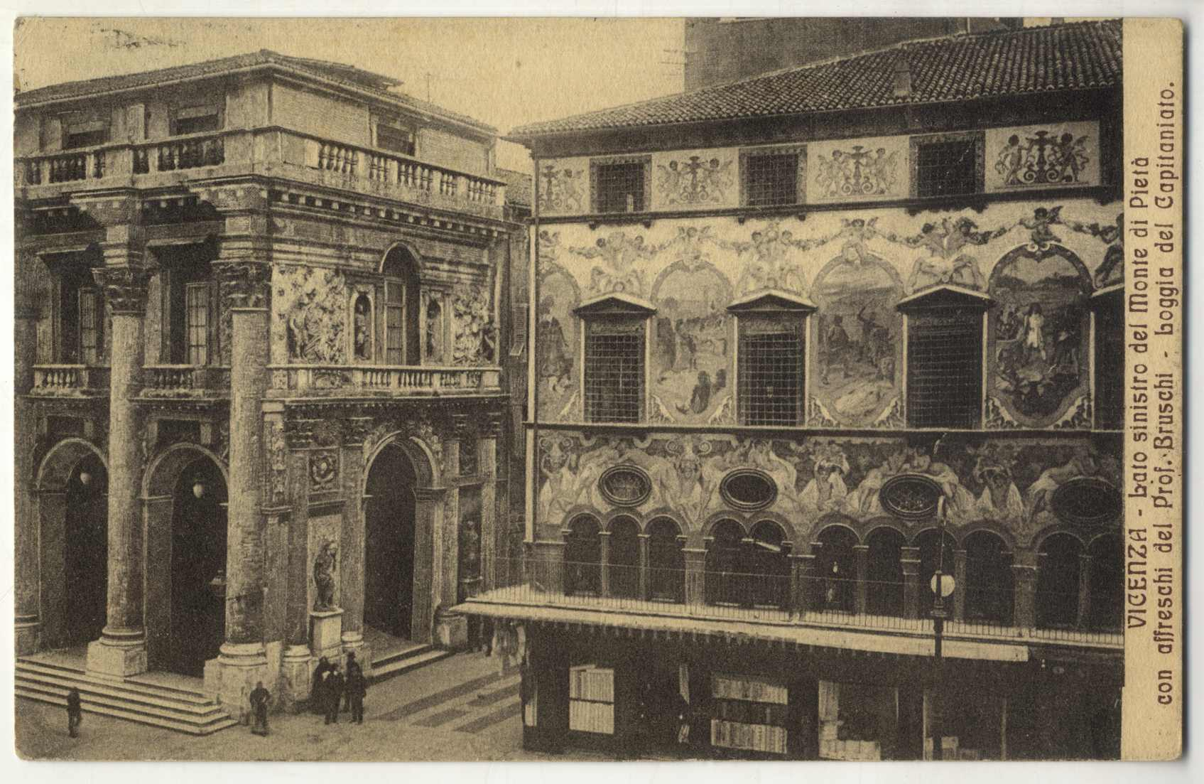 Vicenza. Left side of the Monte di Pietà with frescos by prof. Bruschi - Loggia del Capitaniano. Fondo Gonzati, Biblioteca Civica Bertoliana, Vicenza.